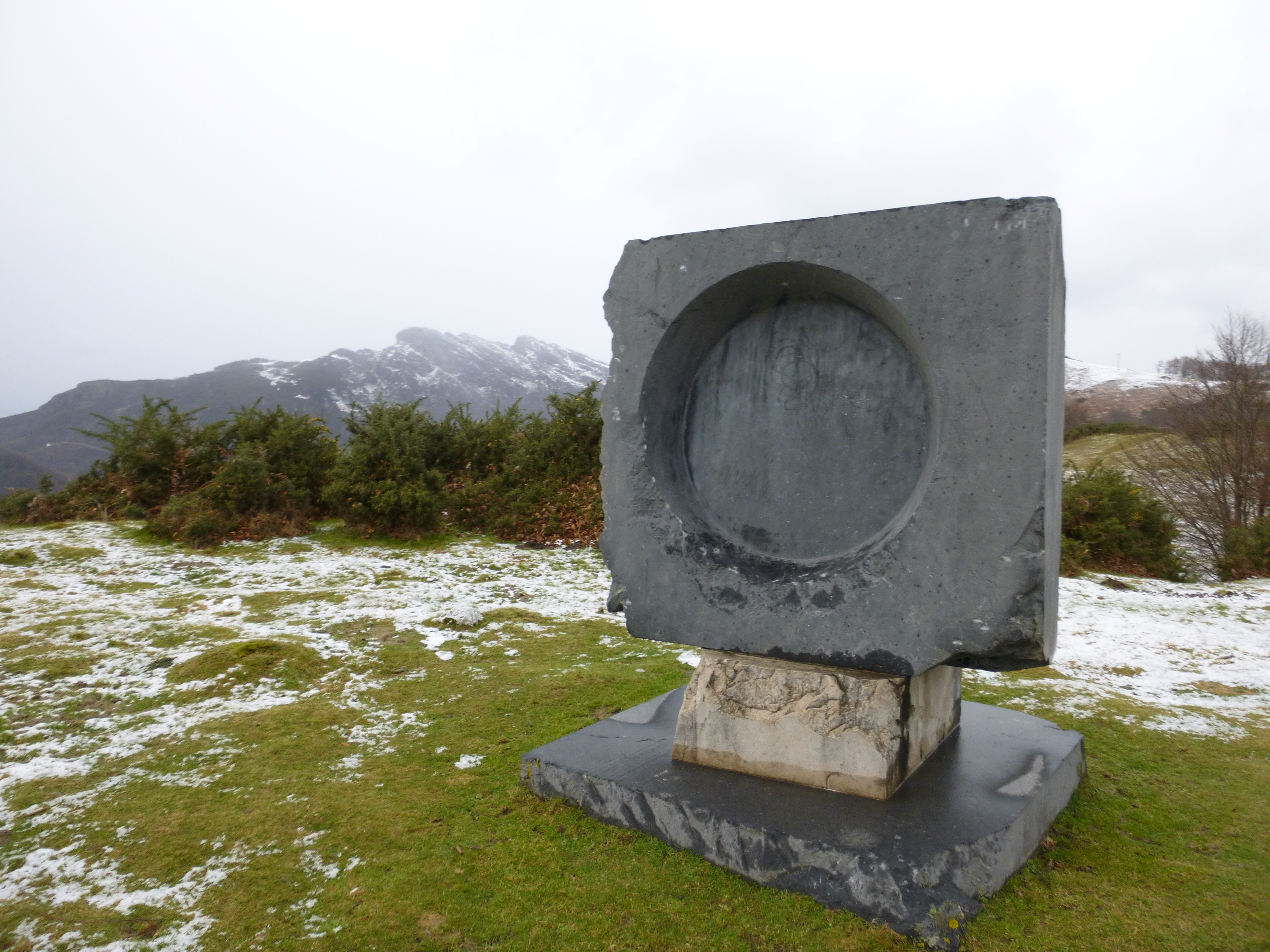 Memorial to Aita Donostia by Oteiza; Agina, north of Navarre